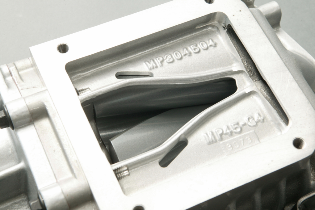 Eaton MP45 Roots type supercharger.